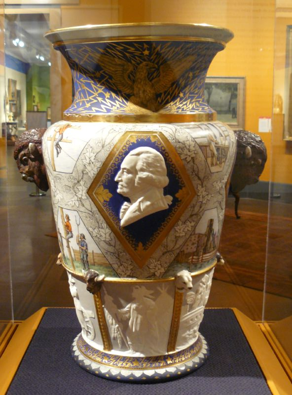 Union Porcelain Works (1863-ca.1922). Century Vase, 1876. Porcelain, Height: 22 1/4 in. (56.5 cm) Diameter of base: 10 in. (25.4 cm). Brooklyn Museum, Gift of Carll and Franklin Chace, in memory of their mother, Pastora Forest Smith Chace, daughter of Thomas Carll Smith, the founder of the Union Porcelain Works, 43.25.